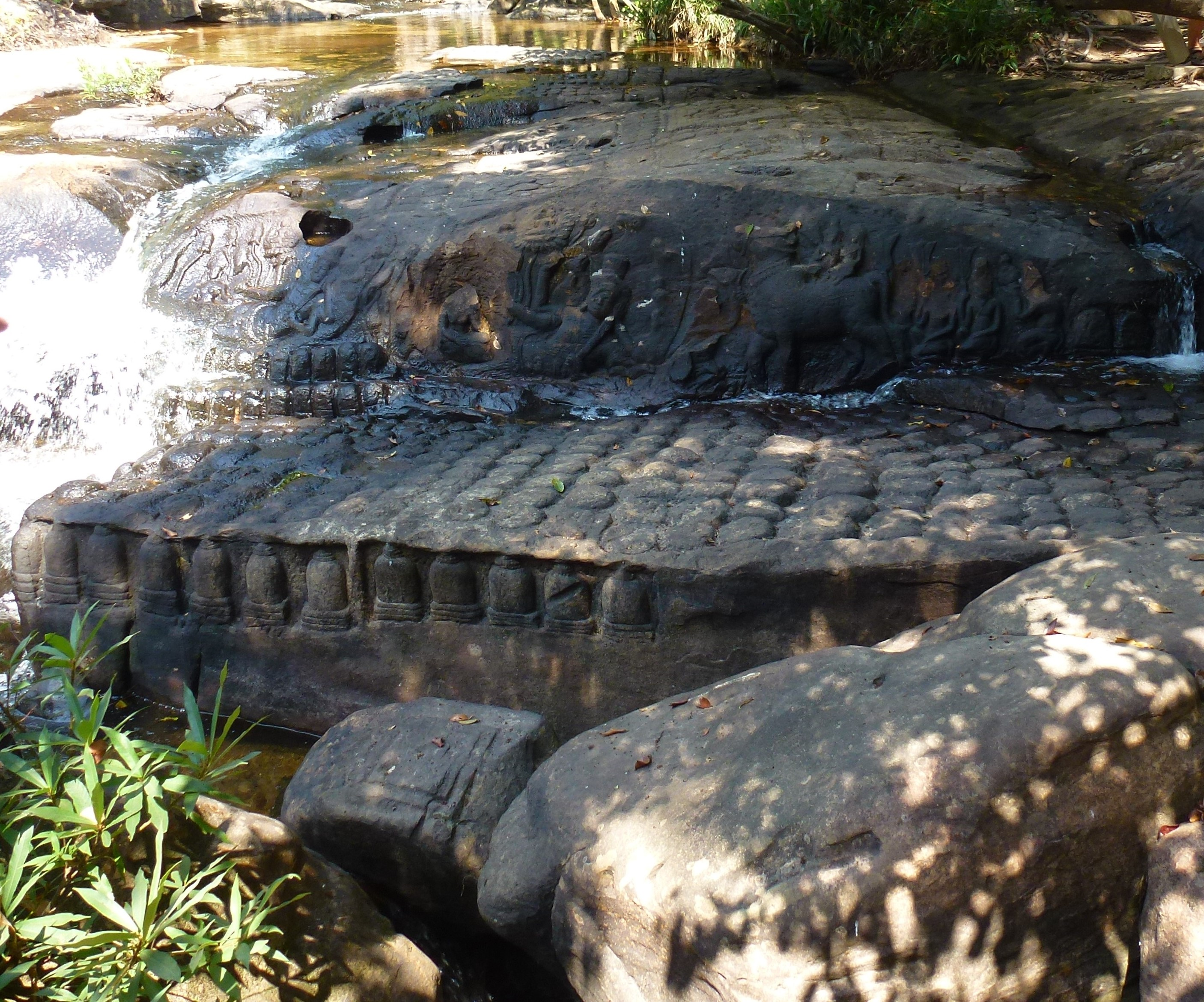 Kbal Spean the valley of a 1000 Lingas. in Ankor, Cambodia